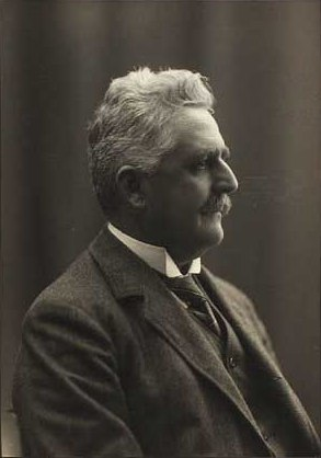 Frederik Rung (1854-1914), Danish composer and conductor